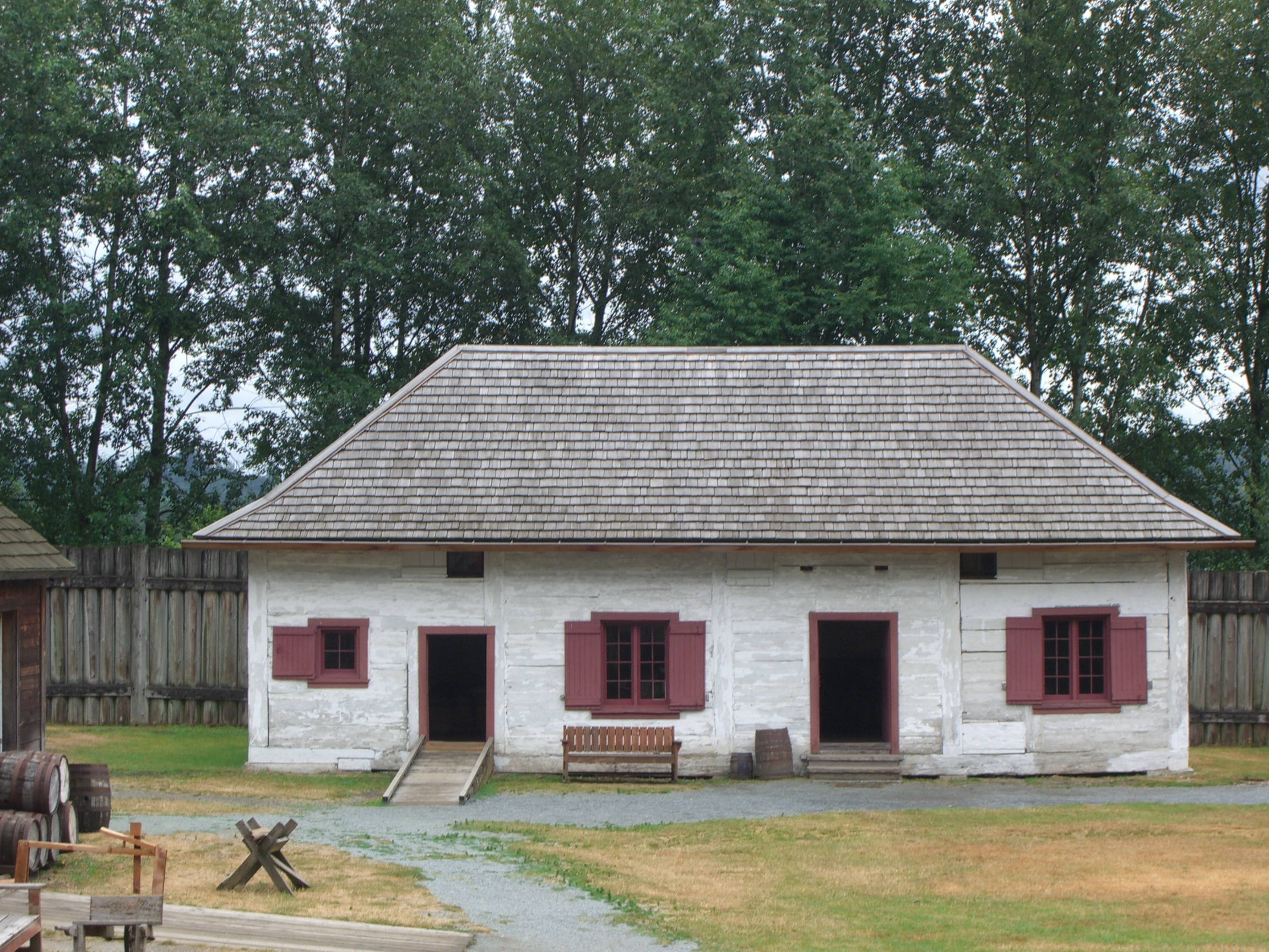 Fort Langley National Historic Site